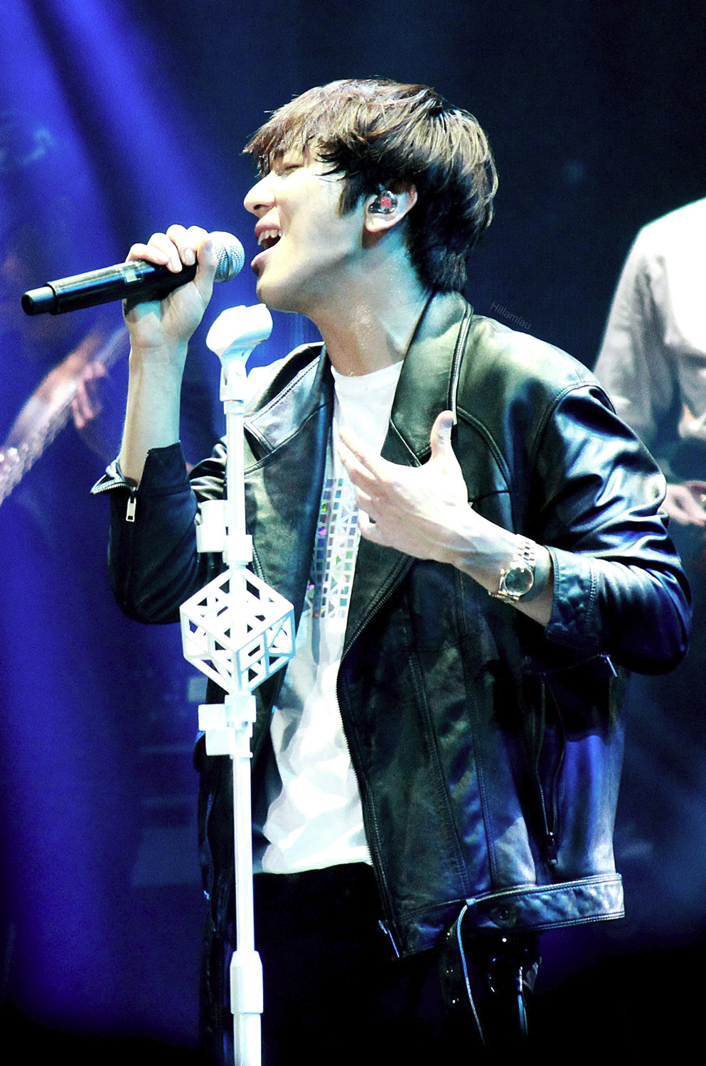 2015 Jung Yong-hwa Live in Hong Kong at the AsiaWorld–Expo in China, on March 19.